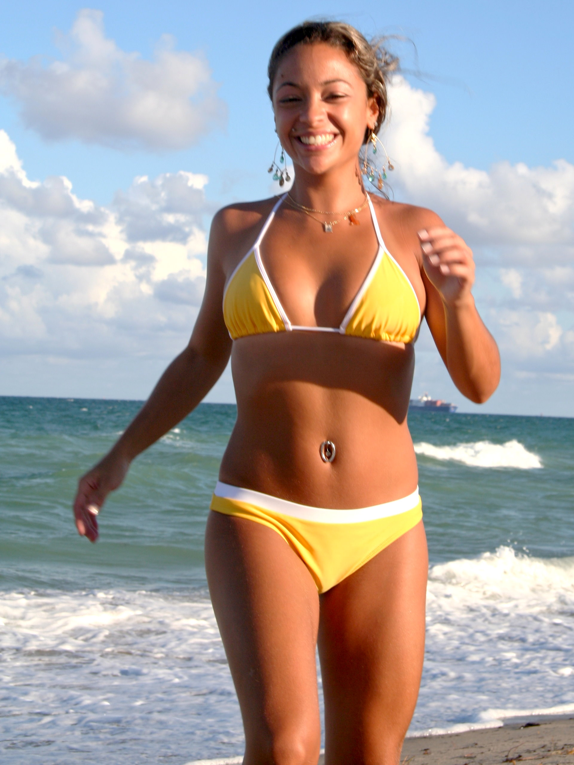 Photo by Rick Iossi.